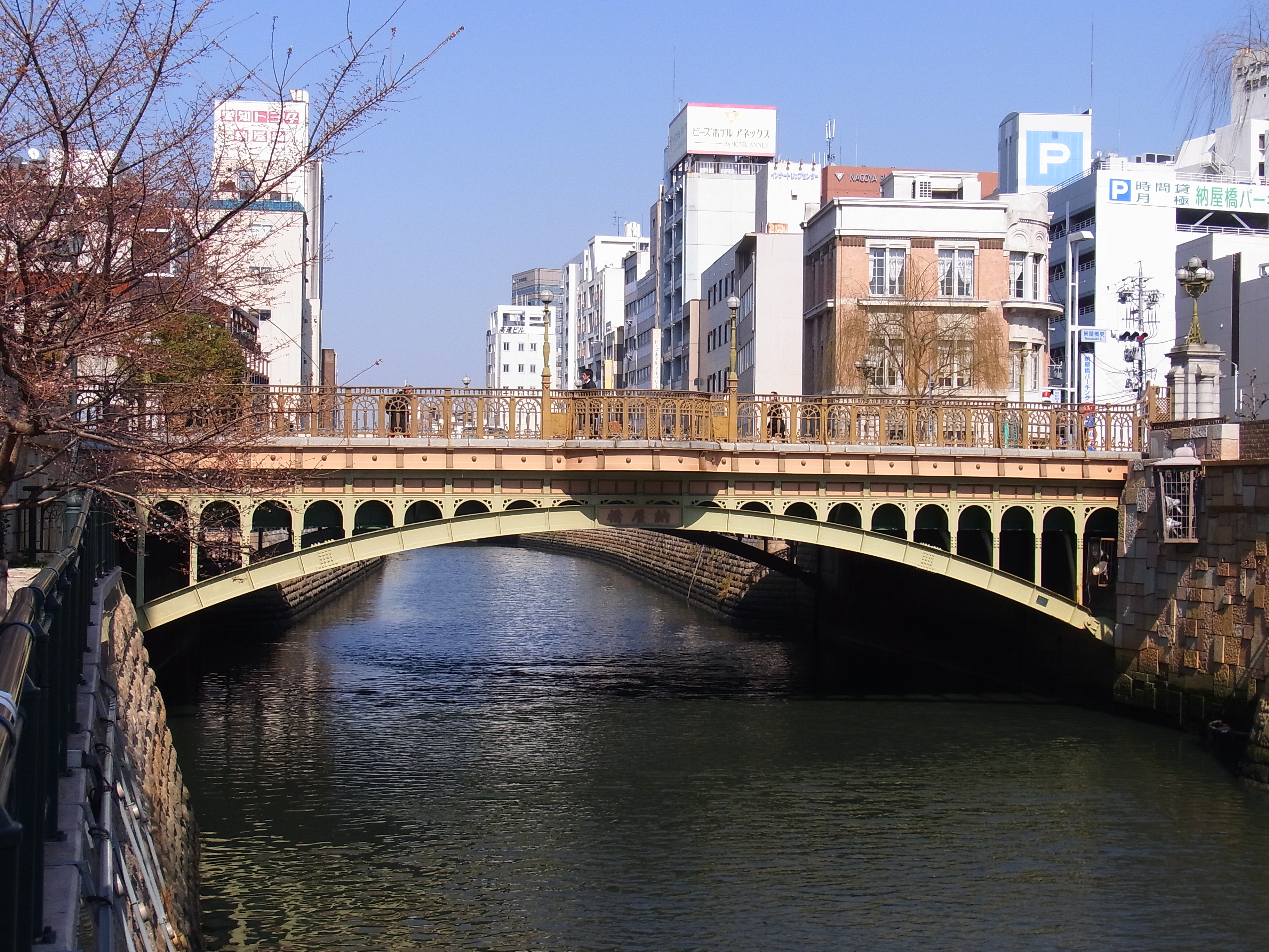 Nayabashi Bridge in Nakamura-ku Ward, Nagoya City.